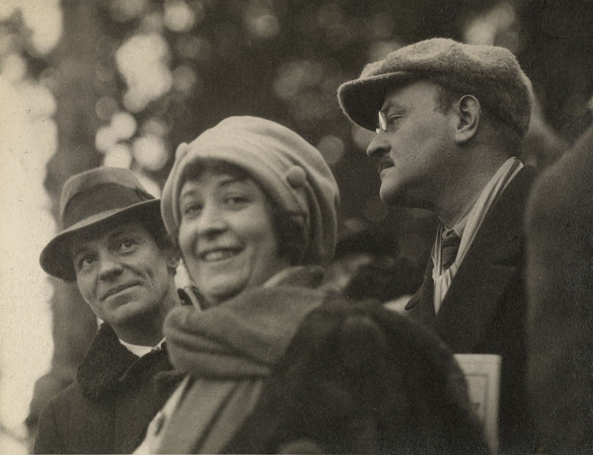 Left; Alexander Moissi, right; Halfdan Christensen.